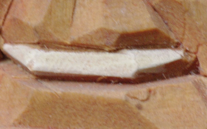 Diffraction in photograph at F11.